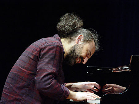 Stefano Bollani